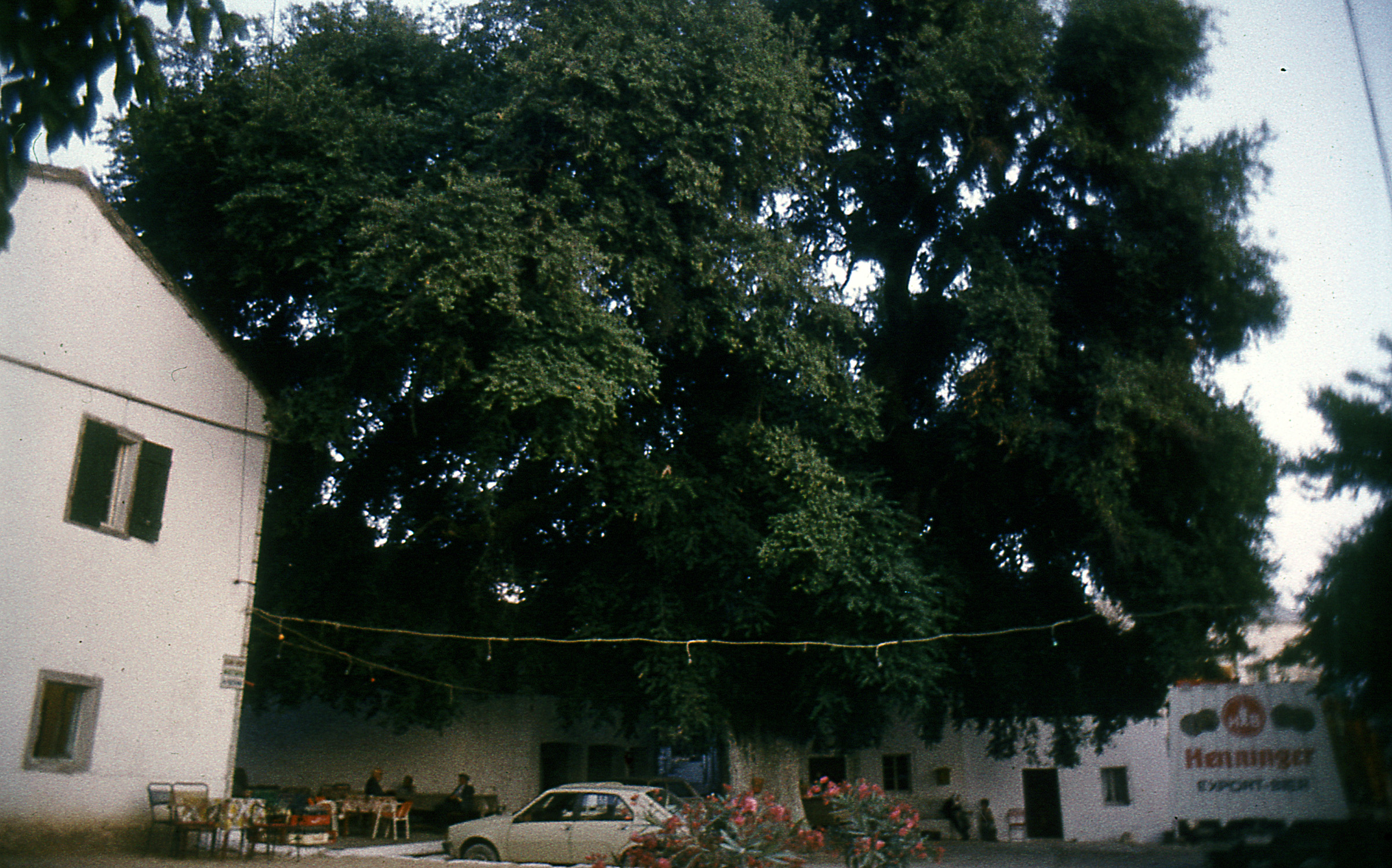 Gigantic Ulmus minor (perhaps subsp. canescens) tree in Strinilas village Kepkypa July 14, 1982 (photo Mihailo Grbić)